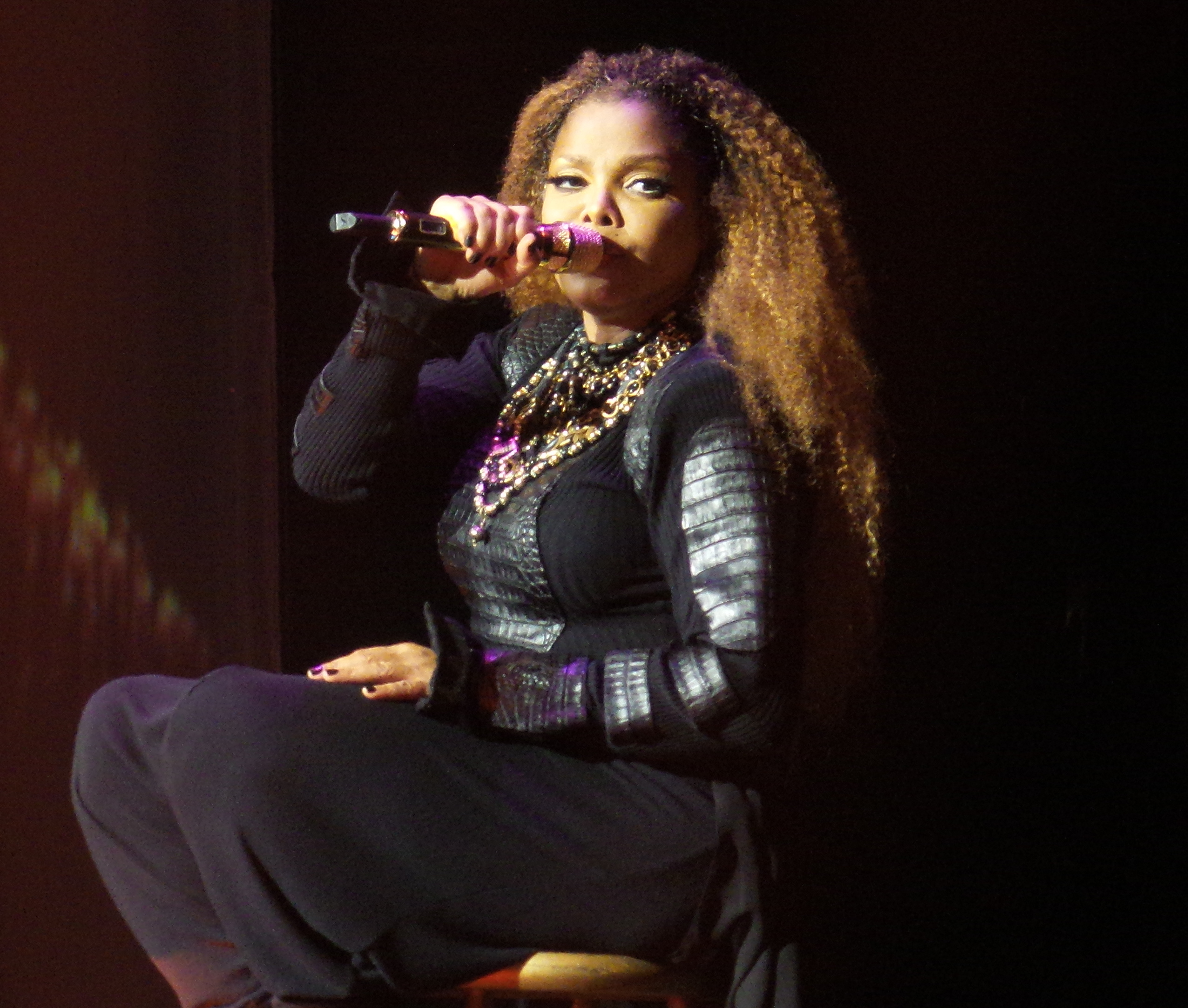 Janet Jackson Unbreakable Tour, Honolulu, Hawaii 2015